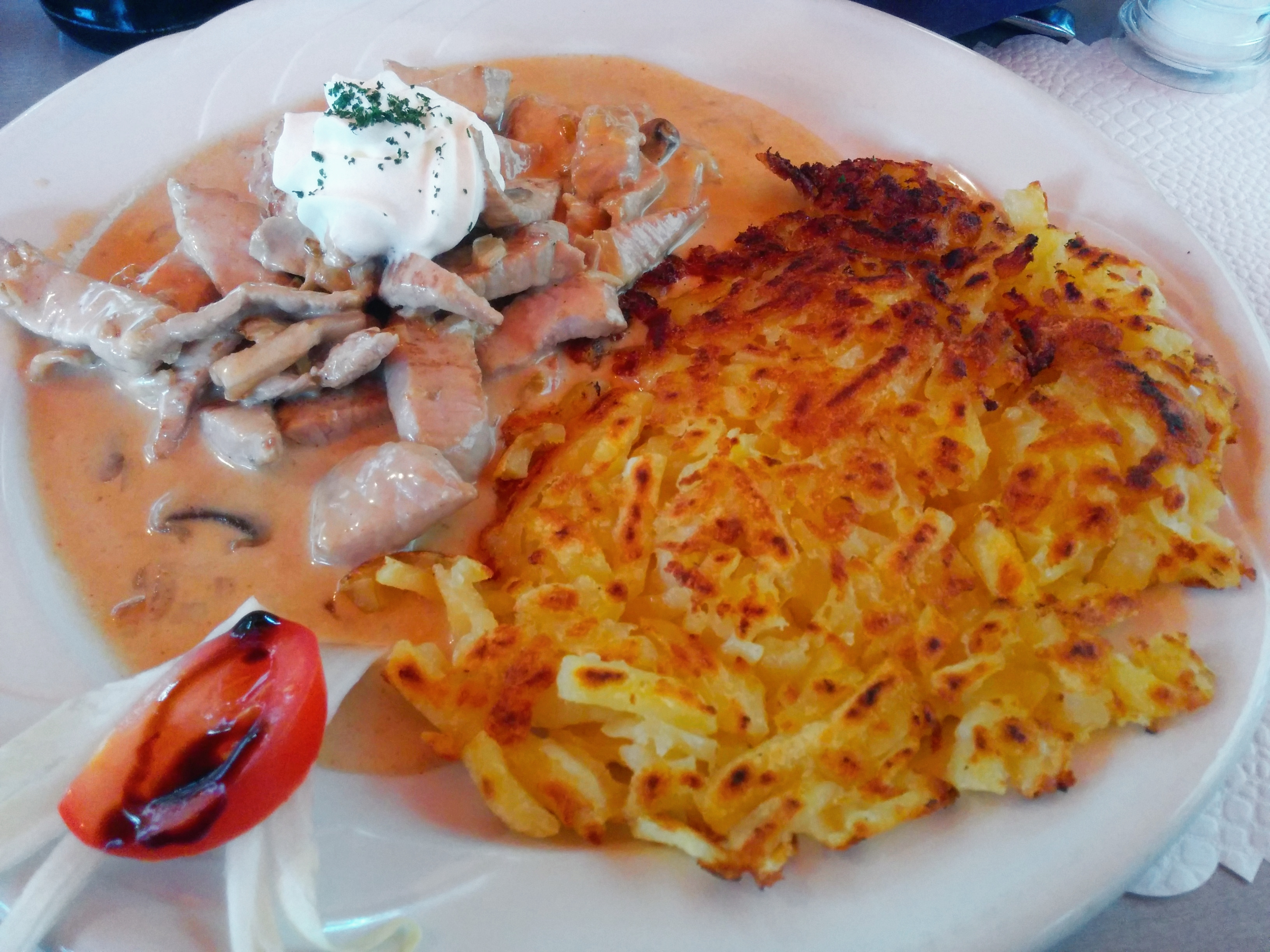 Geschnetzeltes Kalbfleisch nach Zürcher Art, a Swiss dish of veal in a white wine and cream sauce served with rösti, as served at restaurant Zur rote Buech, Zürich.